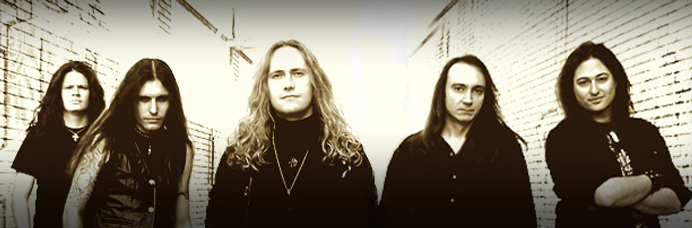 Eden Lost's "Breaking the Silence 2012 banner.